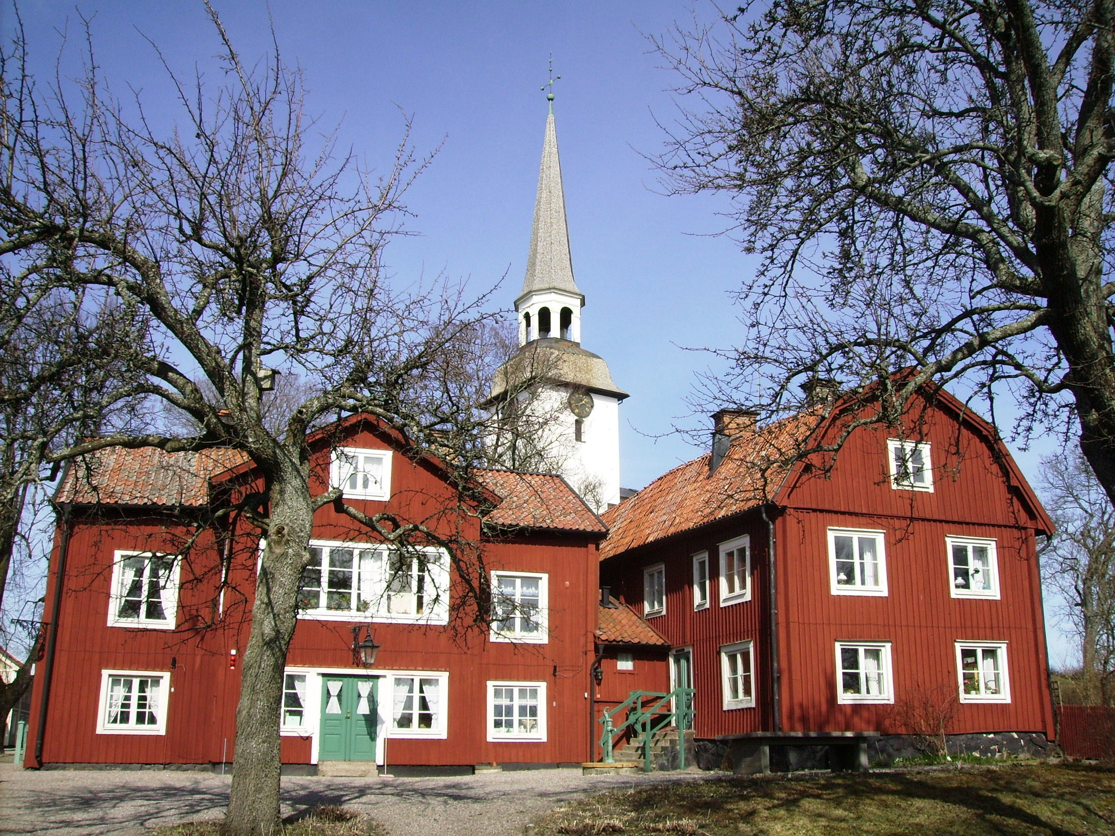 Picture of Callanderska gården in Mariefred, Södermanland